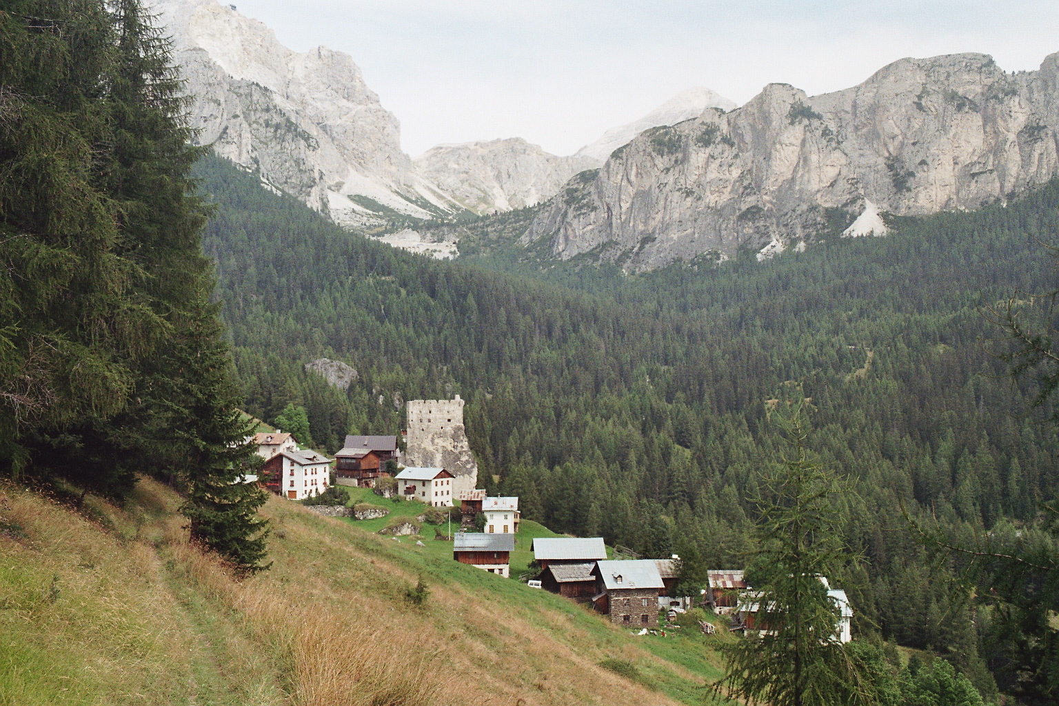 Castle Andraz with village Andraz (Livinallongo del Col di Lana/Buchenstein/Fodom) in Province of Belluno, Italy.